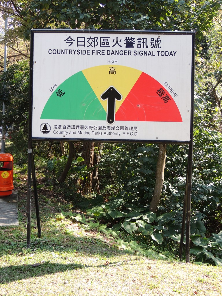 Country park fire danger warning